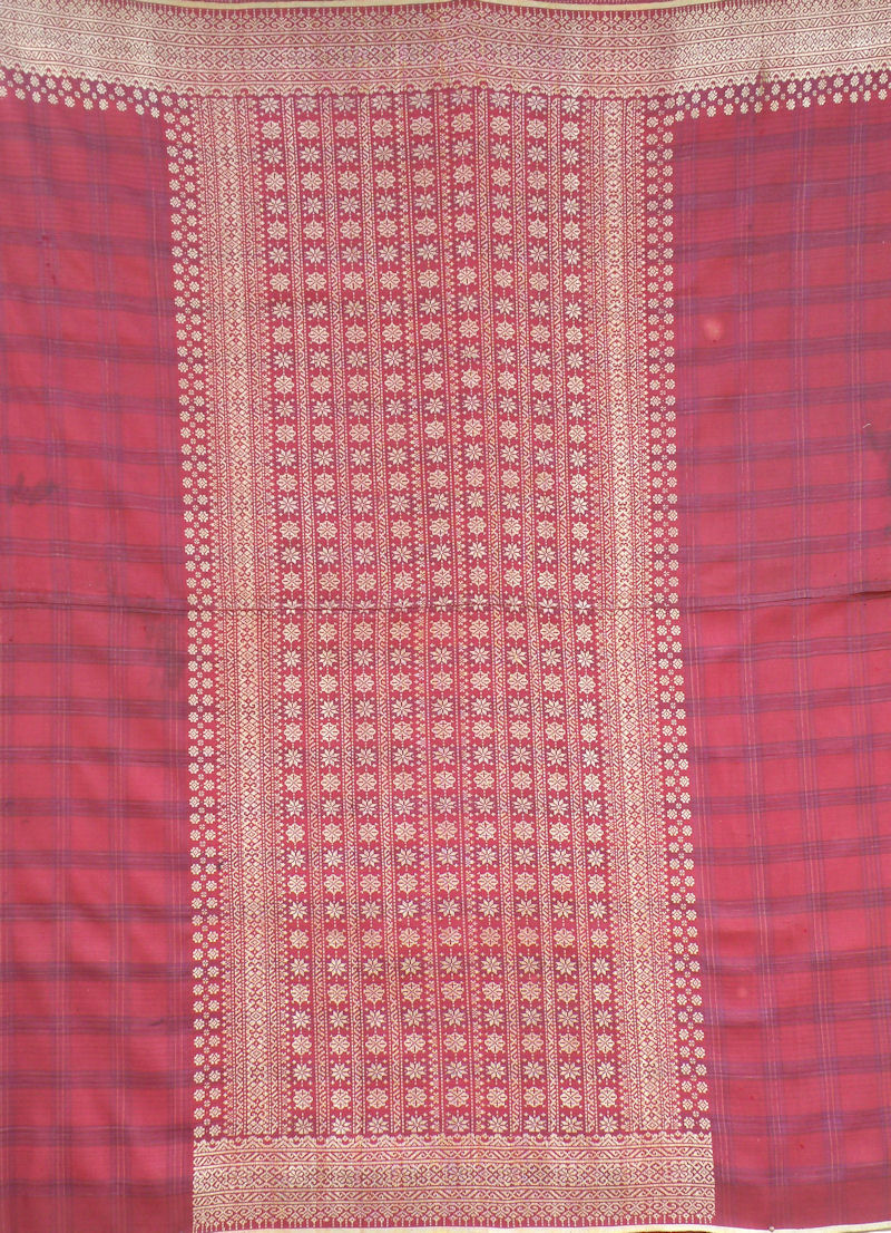 Silk sarong from Singaraja. Collected in Bali in the '90s it is thought to be from the 1920's. From the collection of Balique Arts of Indonesia. 182 x 110 cm